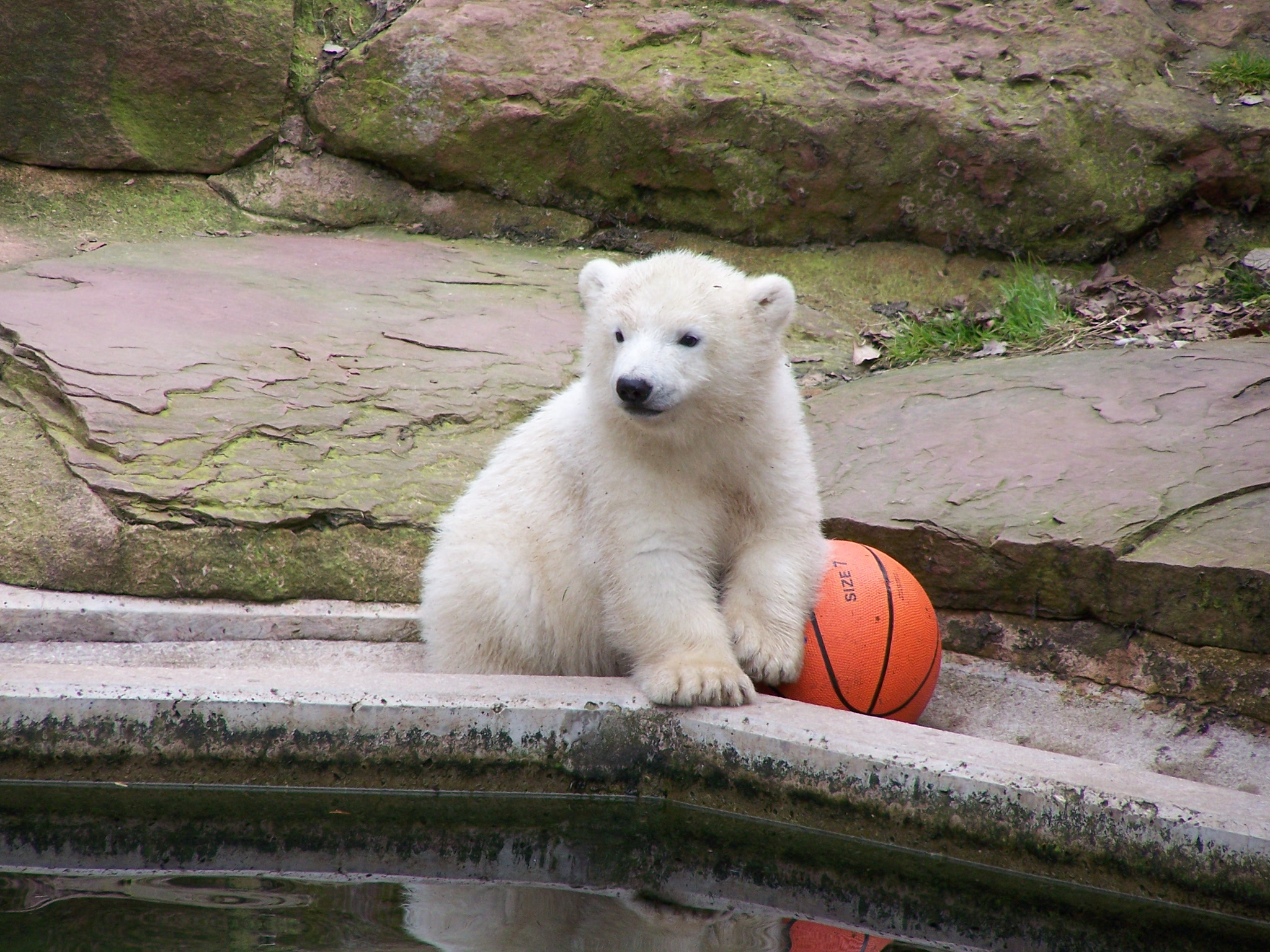 Polar bear Flocke in the Aquapark of Tiergarten Nürnberg, Nuremberg, Germany.